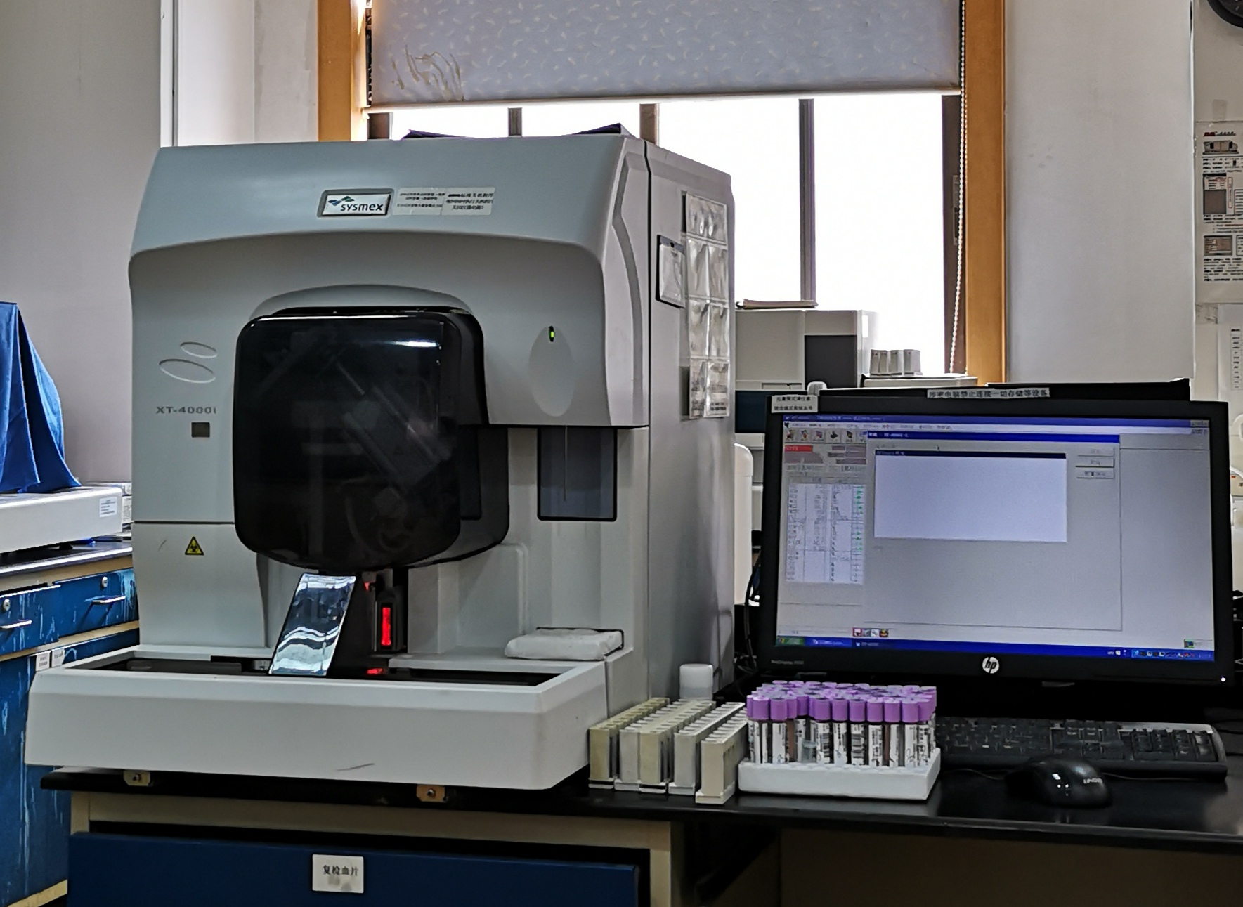 Sysmex XT-4000i automated hematology analyzer in use at a general hospital.